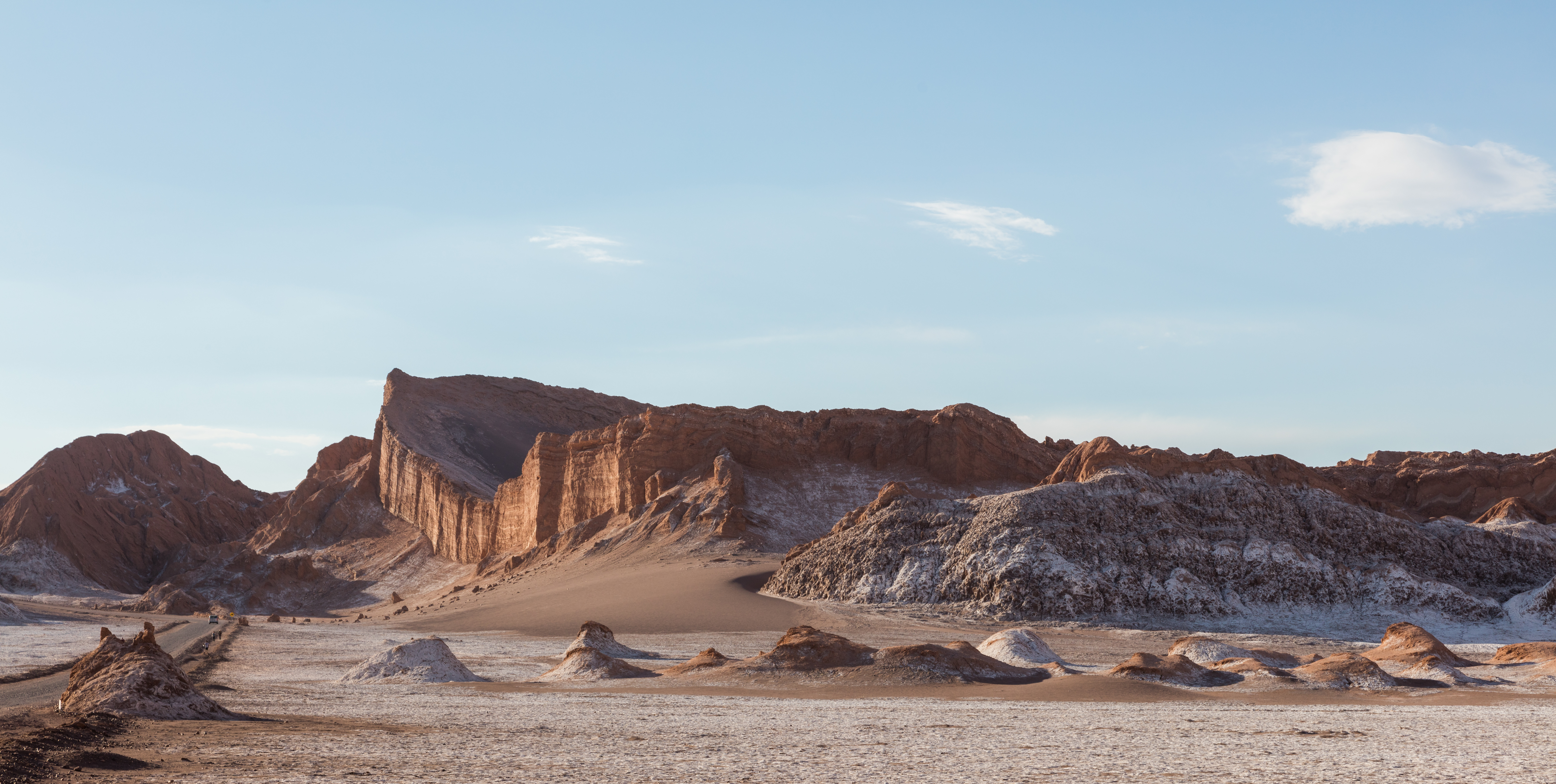 View of "the Amfitheater", a rock formation in Valle de la Luna (in Spanish "Moon Valley") during the golden hour, Atacama Desert, Chile. Valle de la Luna is a part of the Reserva Nacional los Flamencos and was declared a Nature Sanctuary in 1982 for its great natural beauty and strange lunar landscape, from which its name is derived.